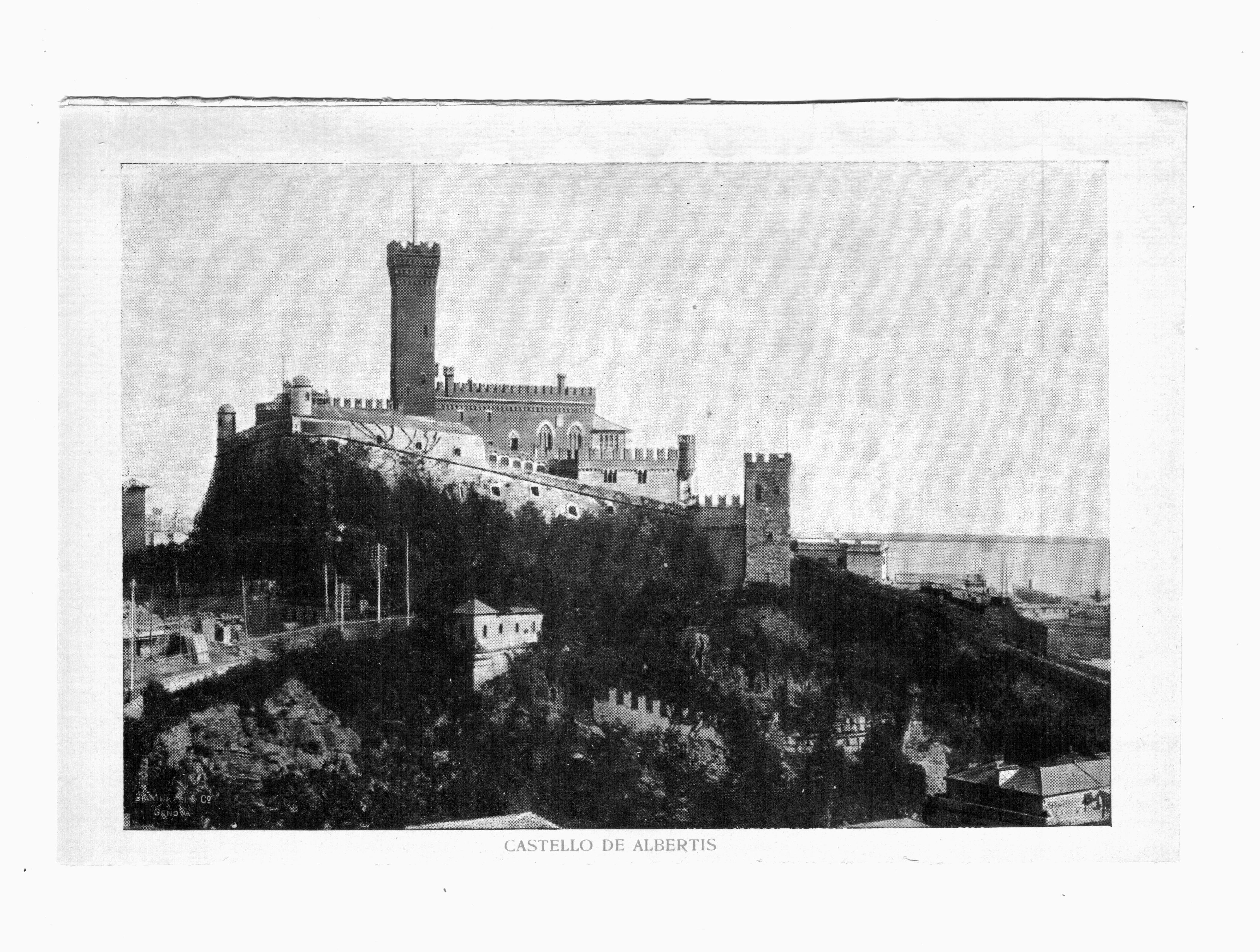 Genoa ; Castello de Albertis